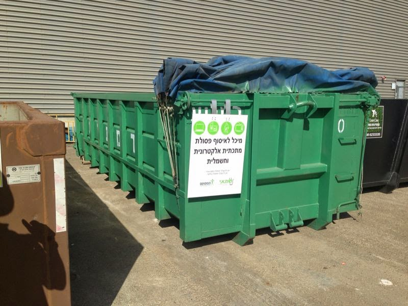 מיכל של תאגיד מאי